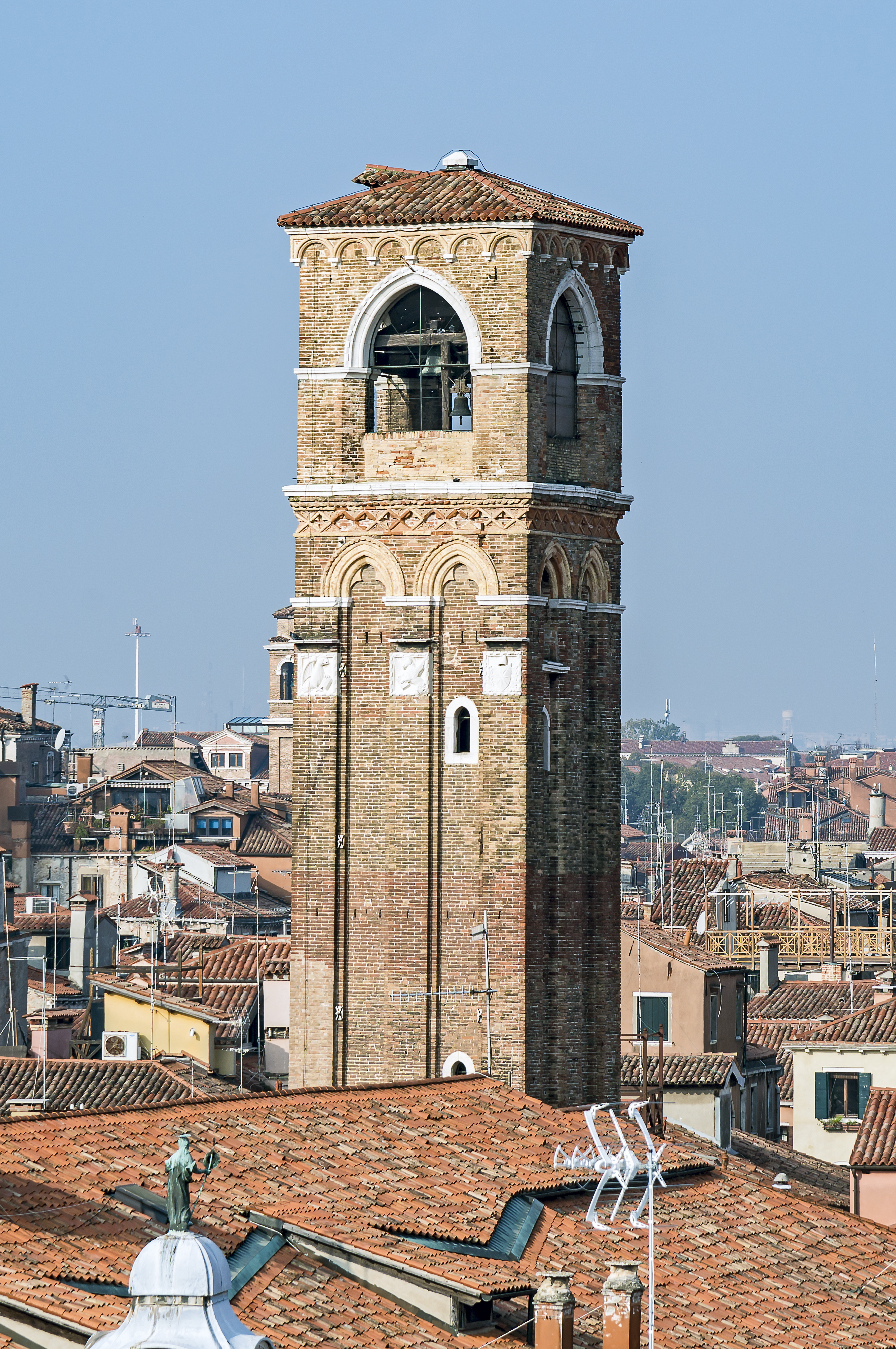 Church of San Giovanni Elemosinario in Venice - bell tower East exposur